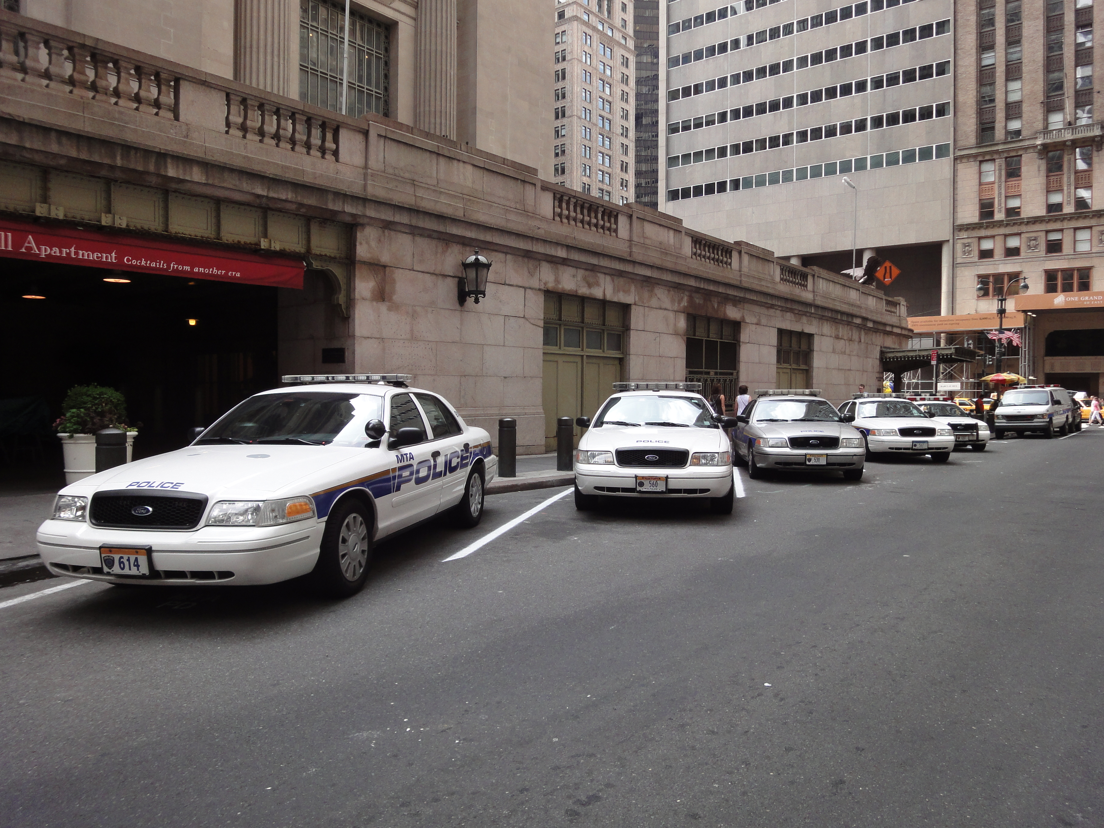 MTA police cars